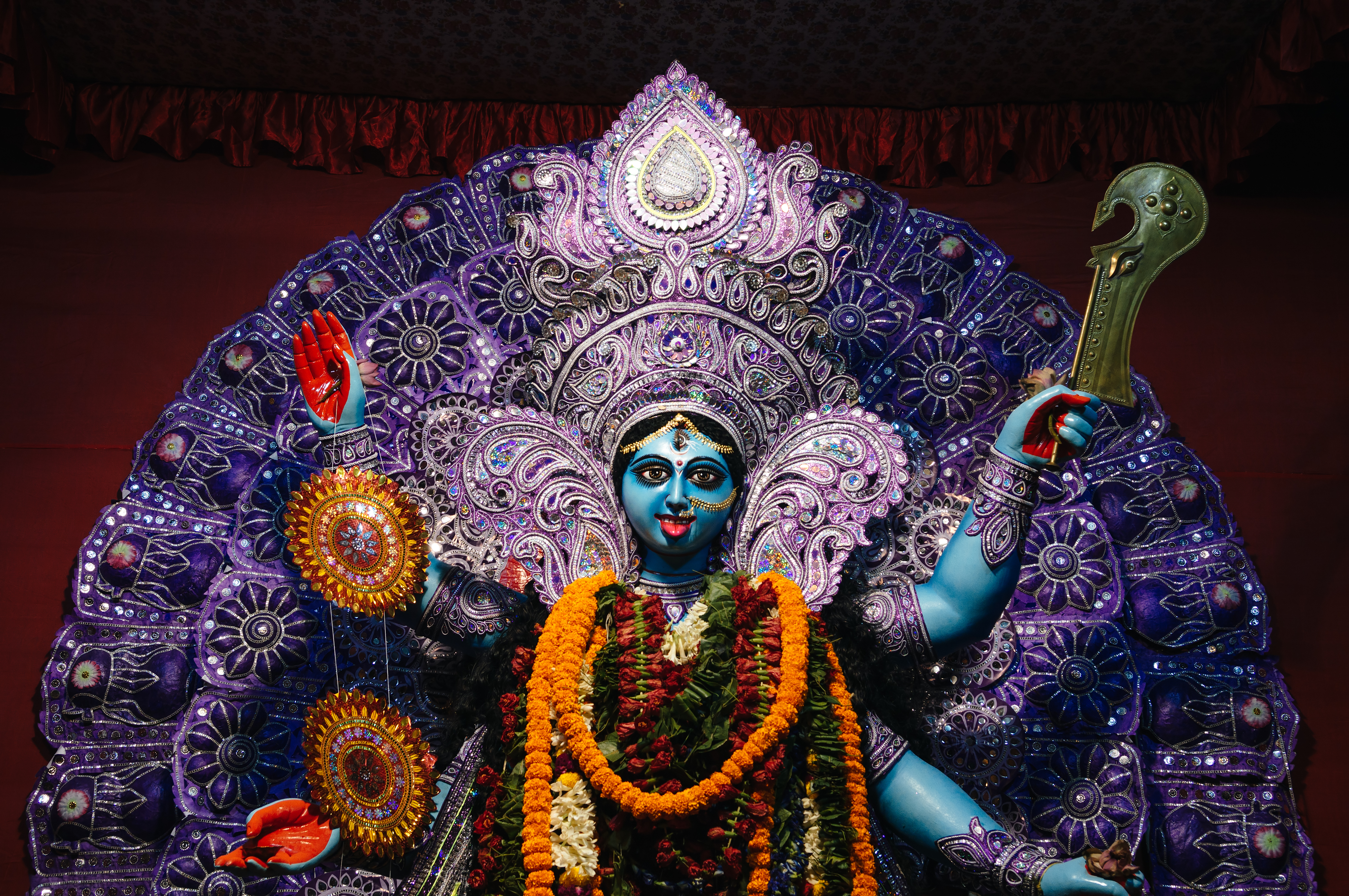 Kali Puja, also known as Shyama Puja or Mahanisha Puja is a festival dedicated to the Hindu goddess Kali, celebrated on the new moon day of the Hindu month Kartik especially in West Bengal, Bihar, Odisha, Assam, Tripura and Bangladesh. It coincides with the rest-of-Indian Lakshmi Puja day of Diwali. While the Bengalis, Odias, Assamese and Maithils adore goddess Kali on this day the rest of India worships goddess Lakshmi on Diwali. Mahanisha puja is performed by the Maithili people of Mithila region in India and Nepal.